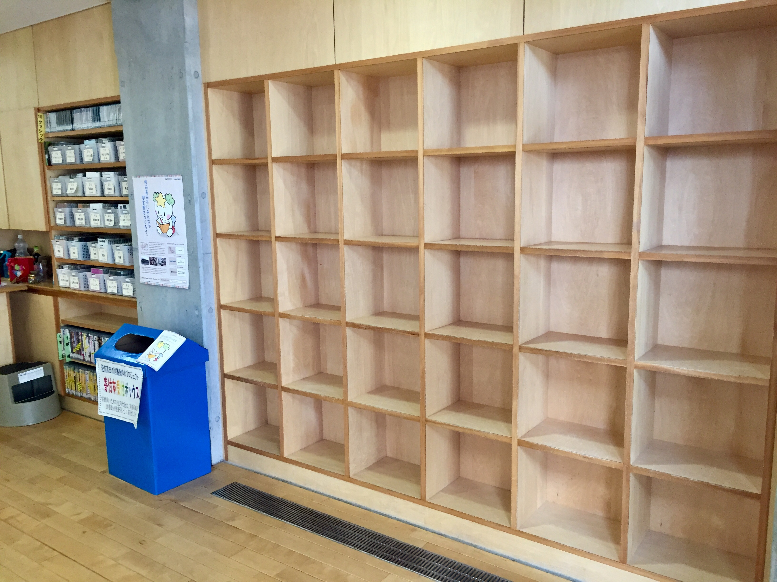 Matsukawa-mura Library